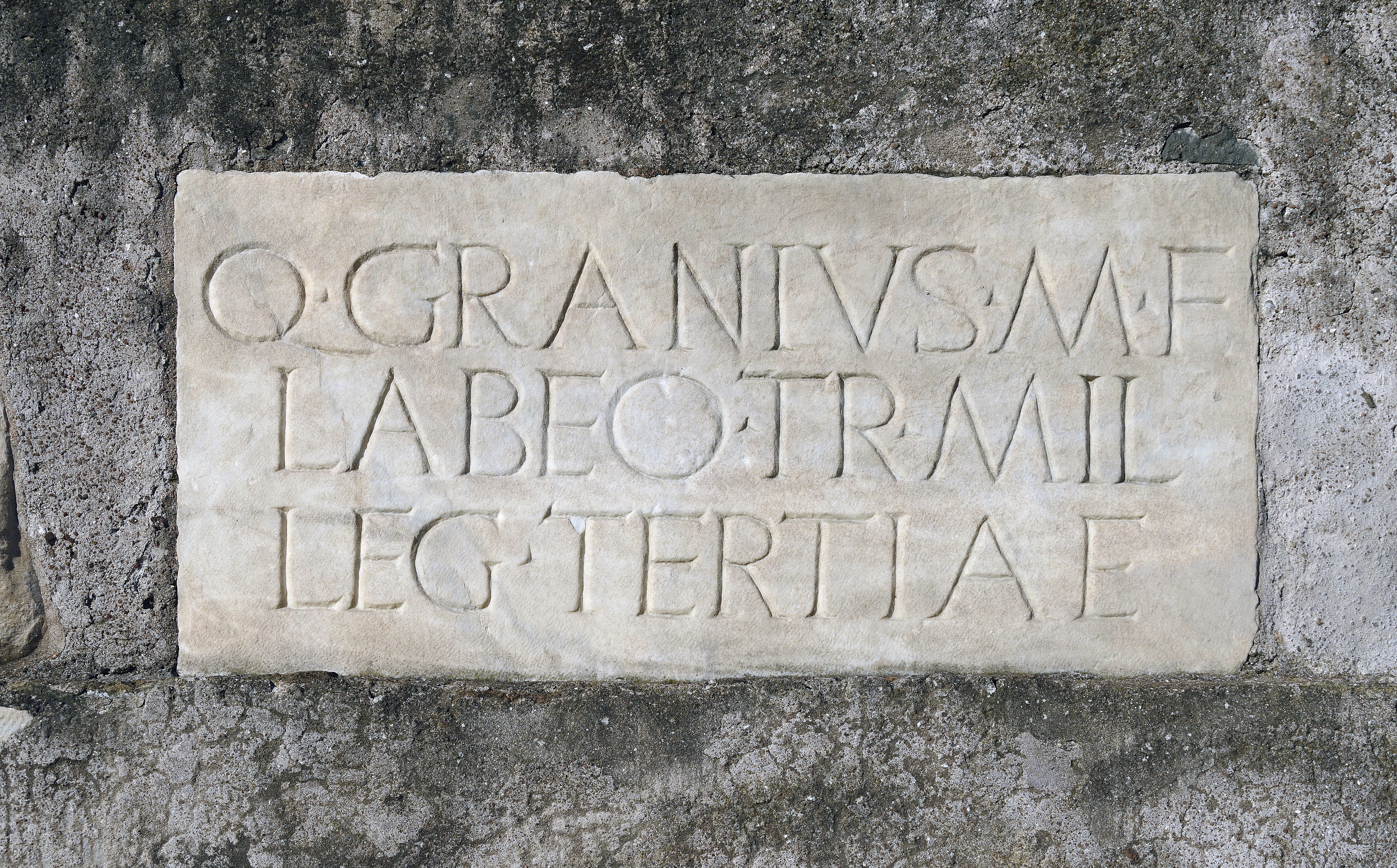 Targa Cecilia Metella